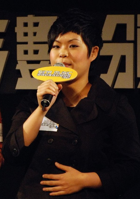 Eman Lam at SINA Music樂壇民意指數頒獎禮 2006 (hosted on 29 January 2007)